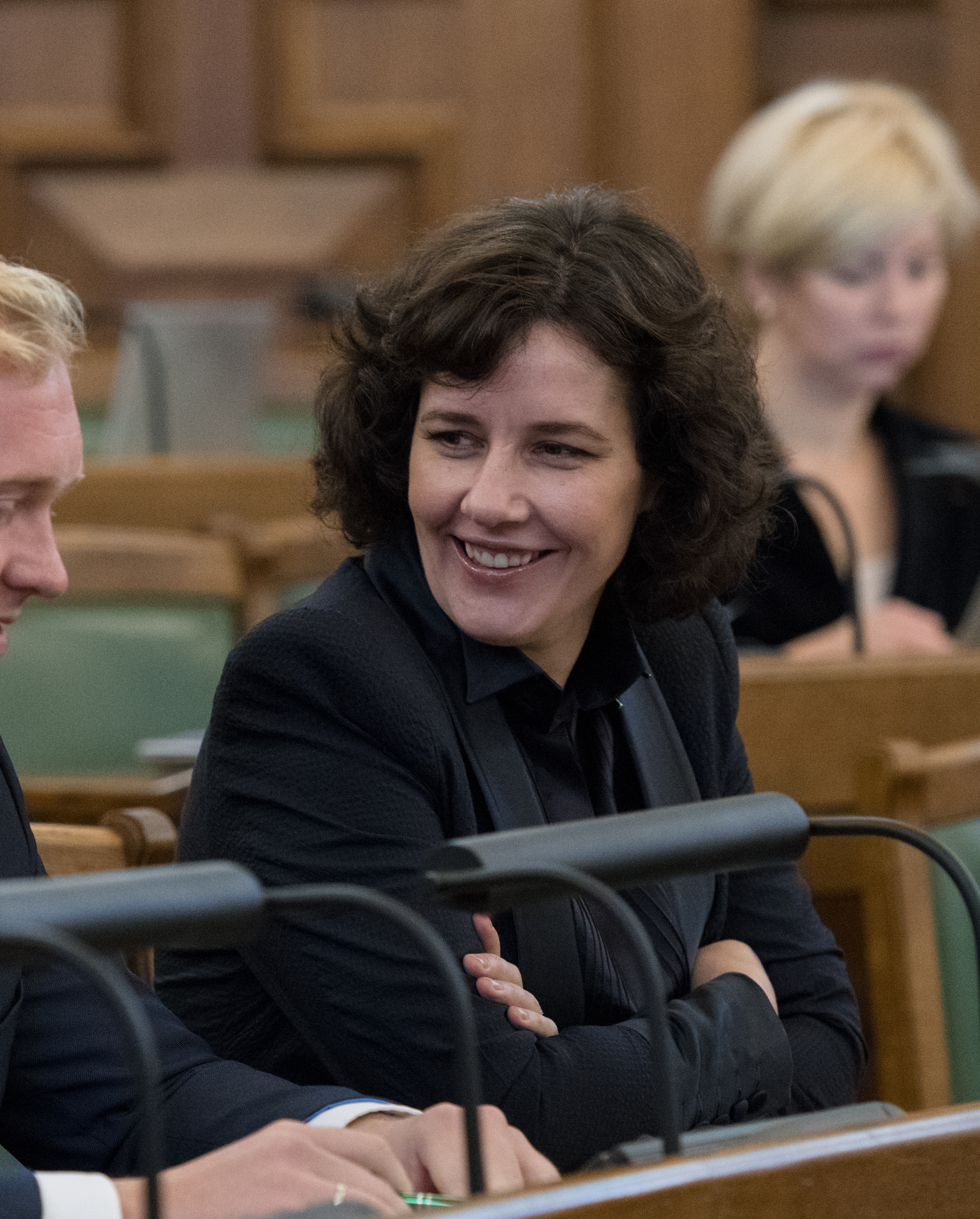 Dana Reizniece-Ozola in Saeima